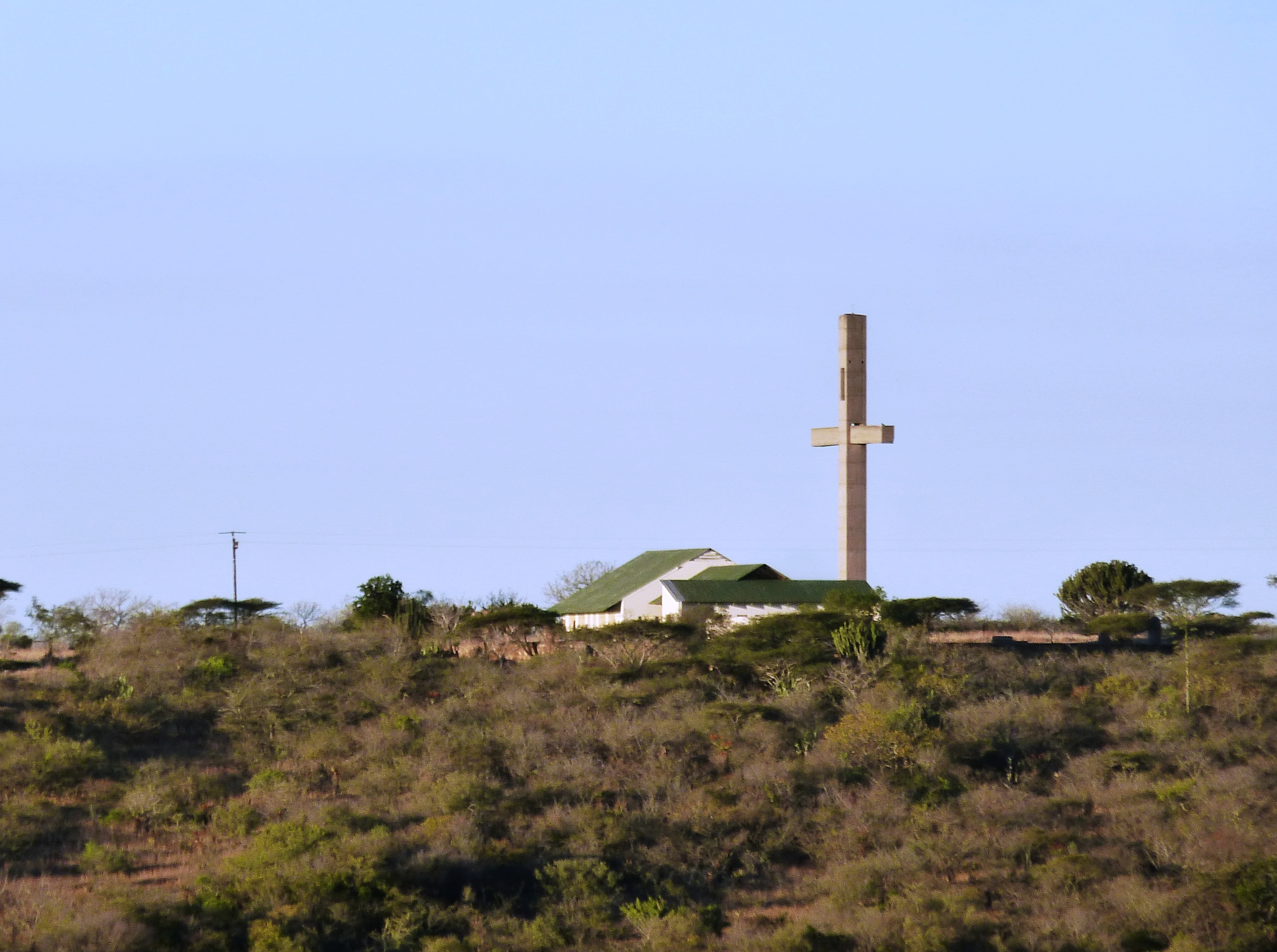 NGK Dingaanstat mission, as seen from uMgungundlovu